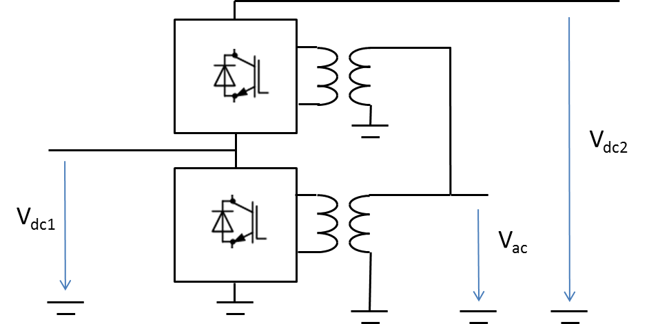 Converter DC/DC series which supplies at the same time an AC grid.